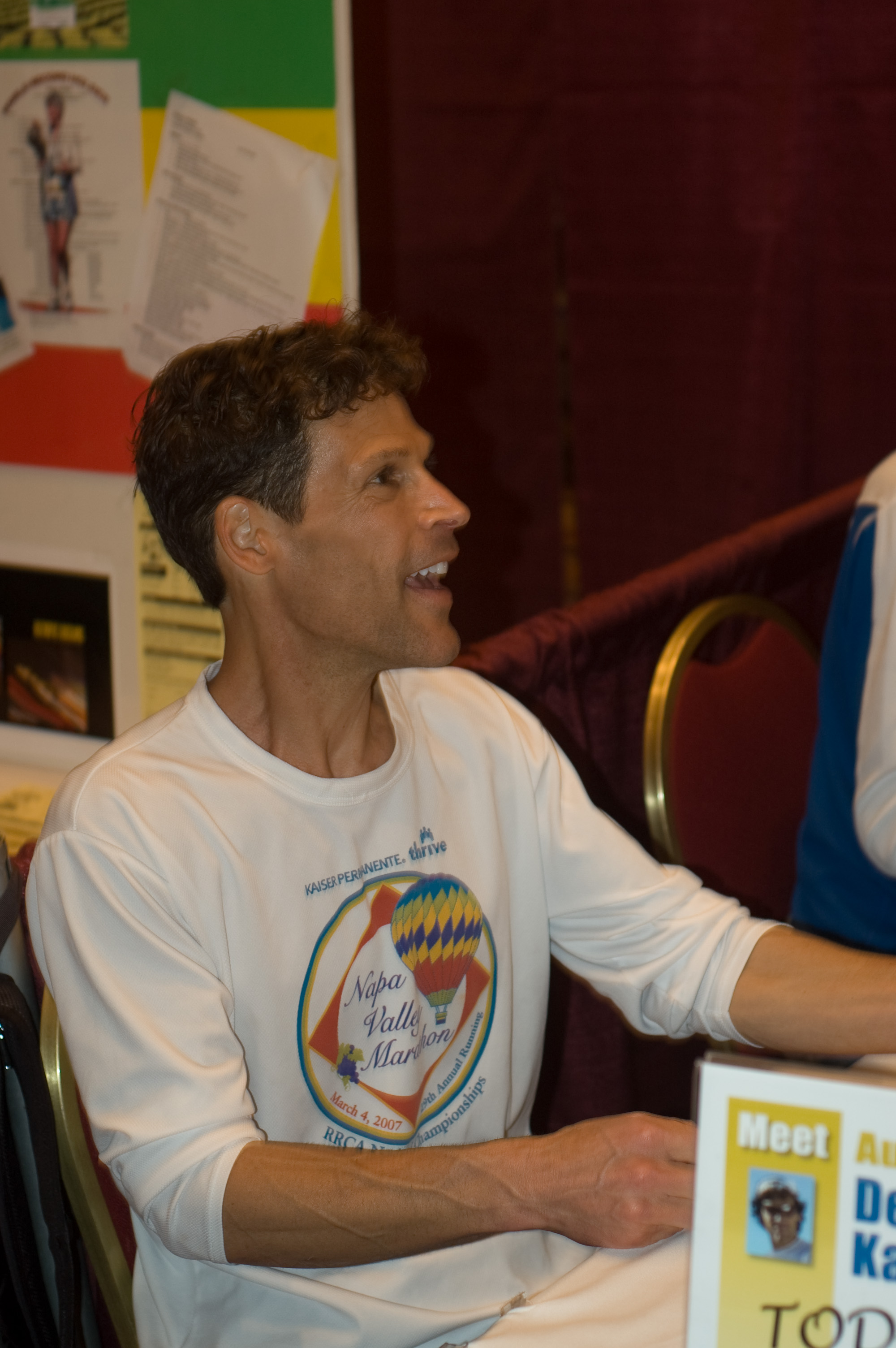 Ultramarathon runner Dean Karnazes signs books at the Napa Valley Marathon pre-race expo.